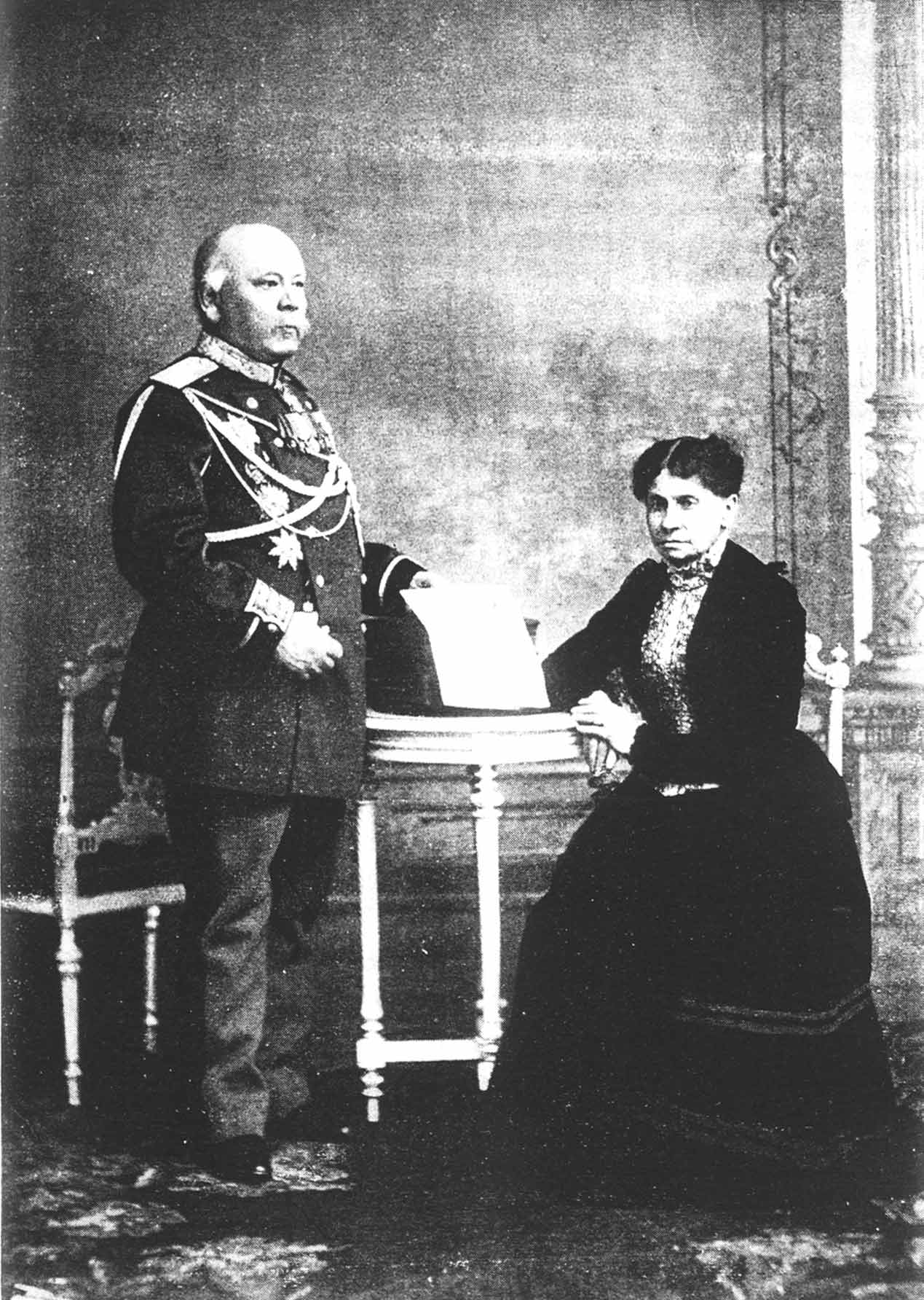 Lieutenant general Edward Kowerski and Elzbieta Kowerska. The Russian Empire. 1908-1909.